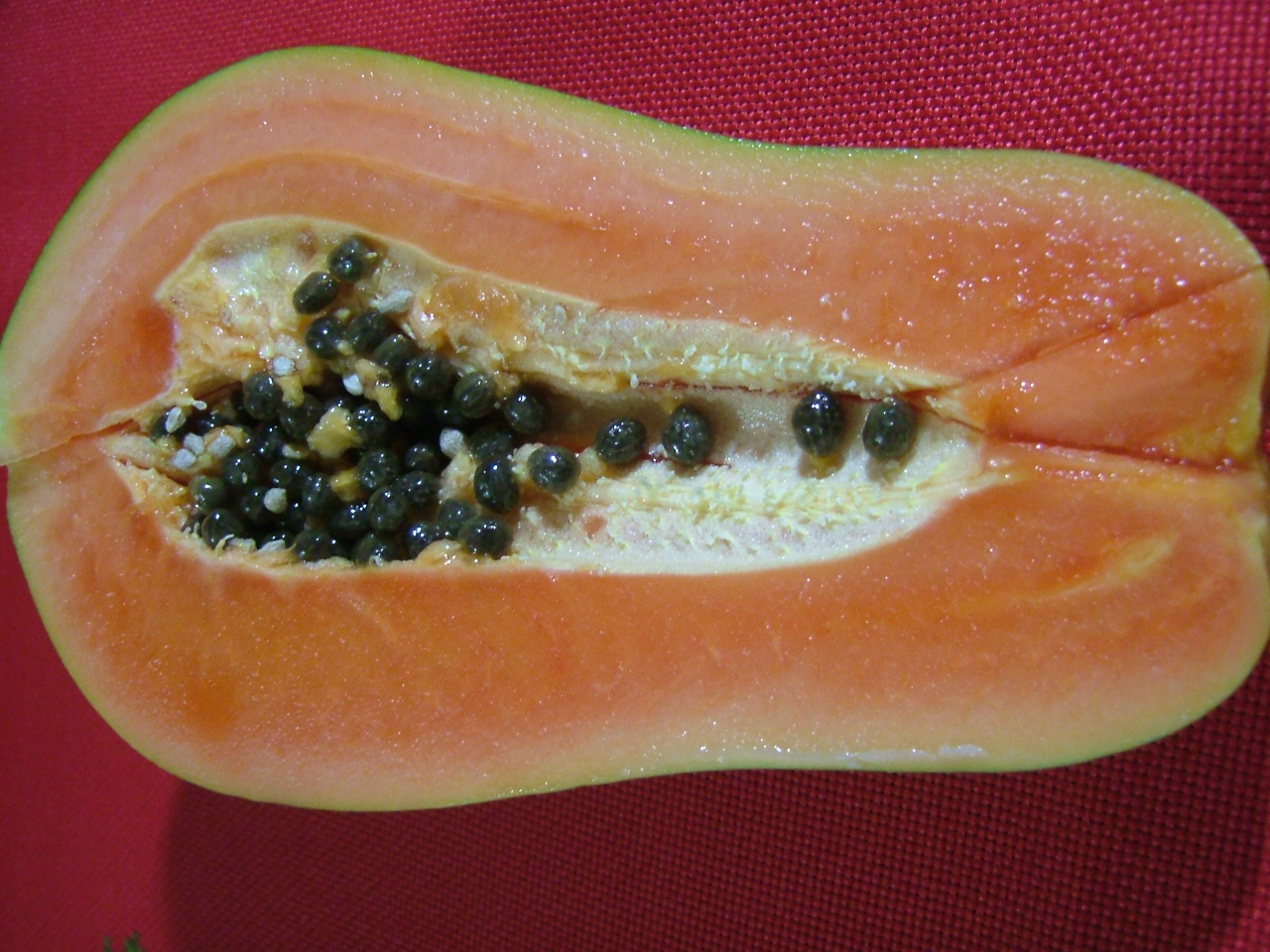 California Papaya grown in Indonesia, cut into half